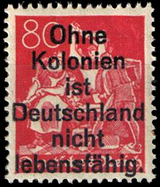 Private German propaganda overprint for lost colonies returning, 80 pfennigs, 1921, on scott#145 stamp